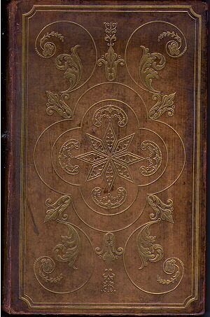 The Gift, scan of the cover of the 1845 literary annual published by Carey and Hart in Philadelphia. Included in this edition is the first appearance of "The Purloined Letter" by Edgar Allan Poe.